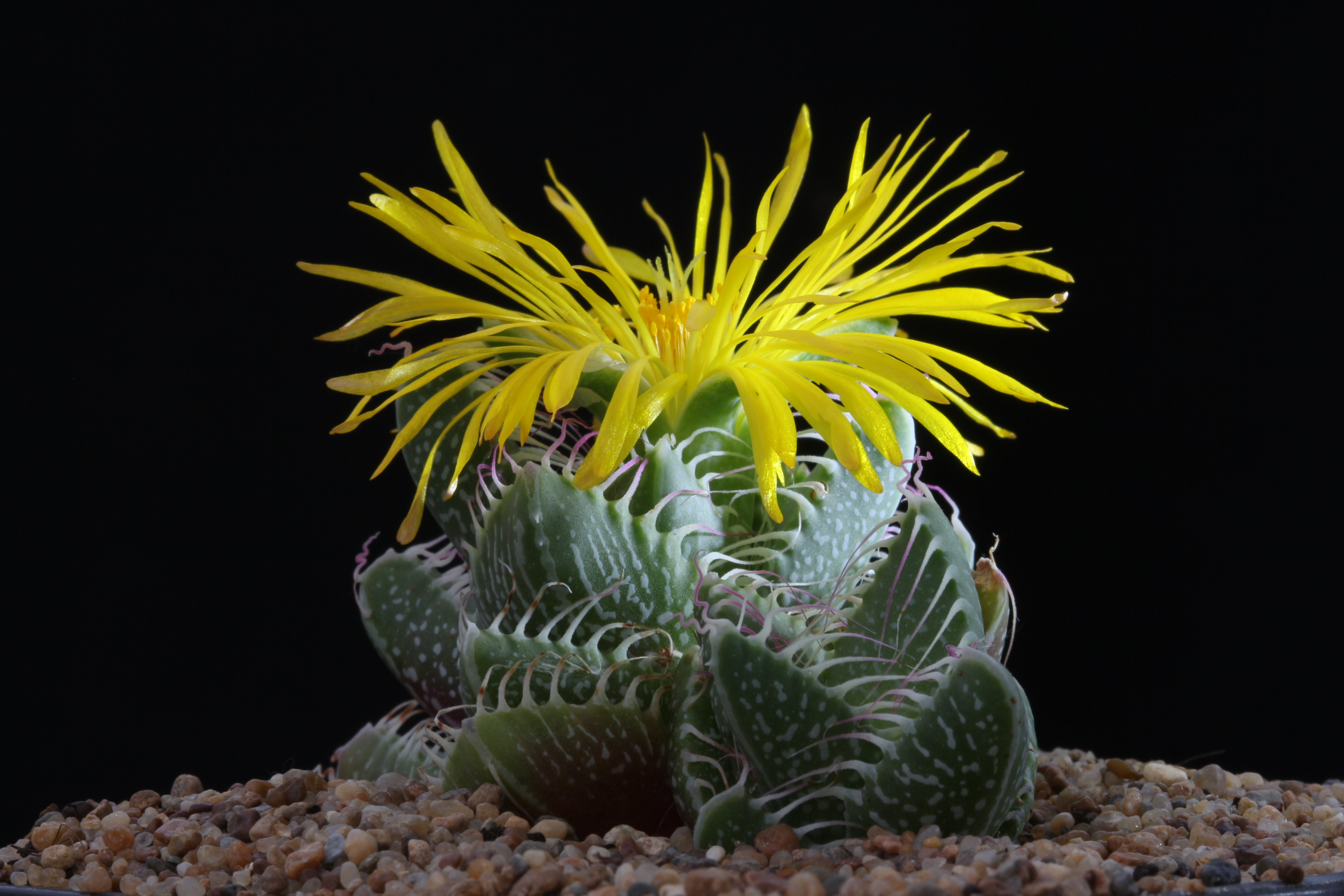 Faucaria tigrina